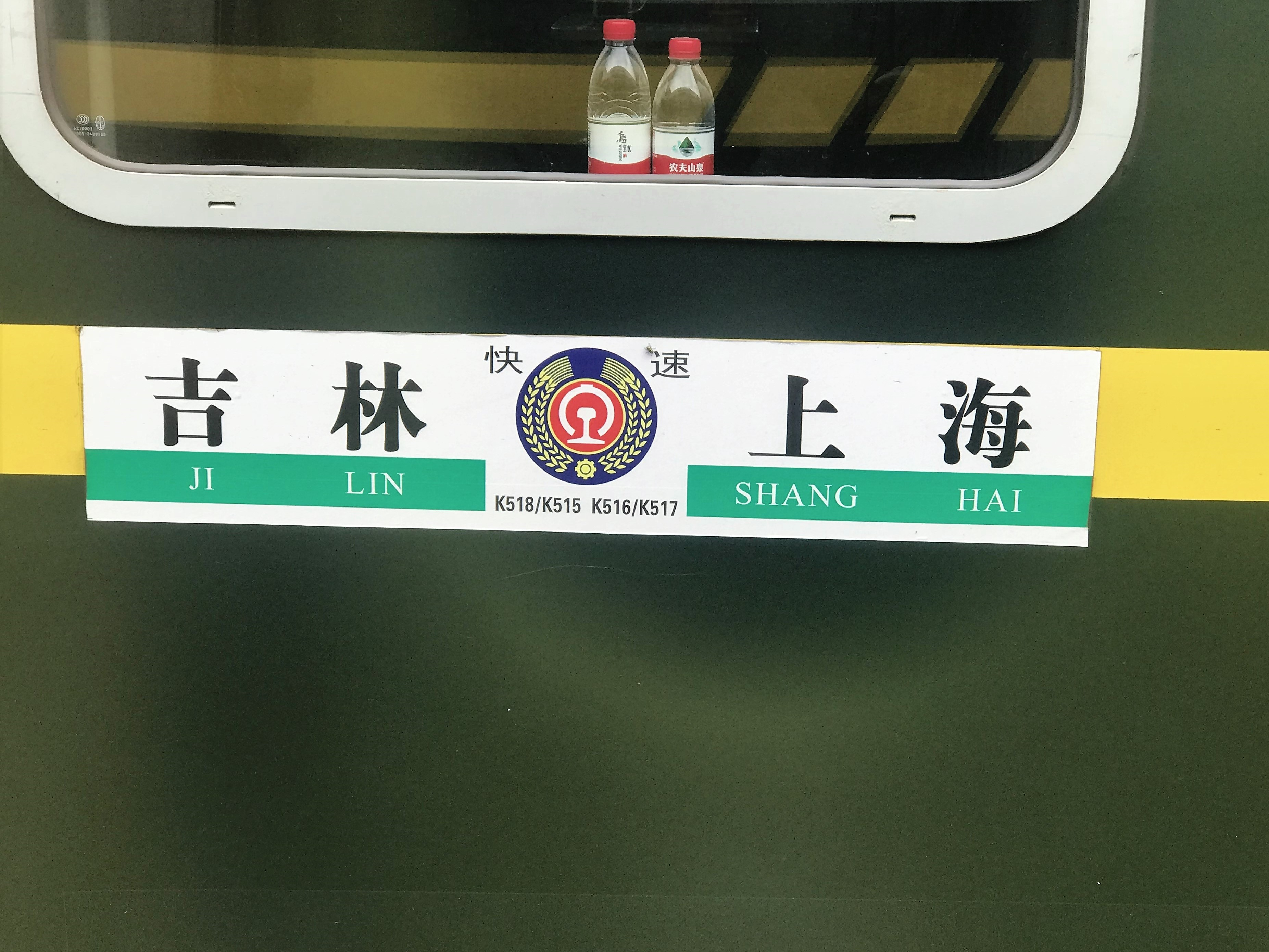 Taken at Kunshan Station